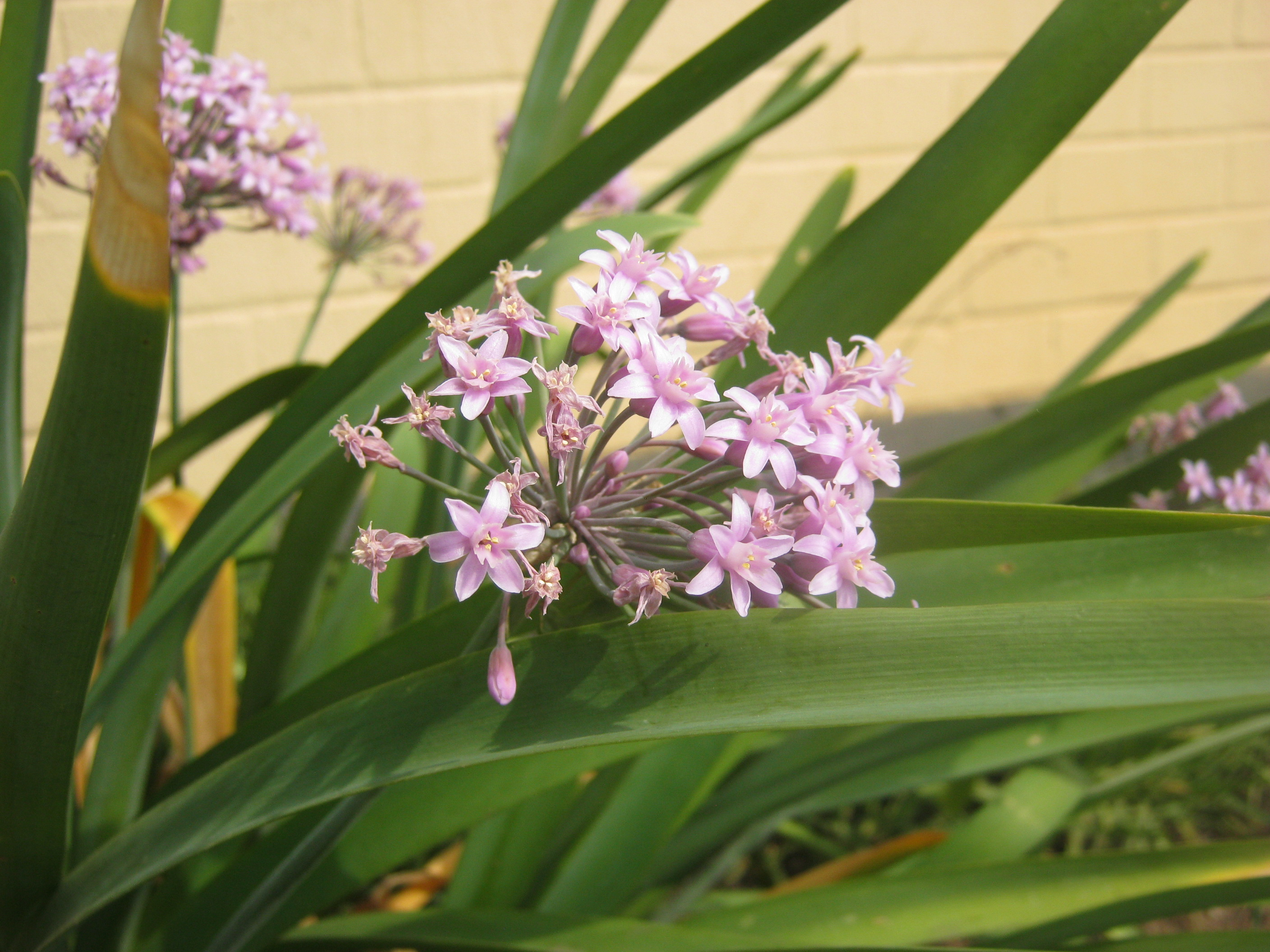 Tulbaghia simmleri, leaves and flowers.